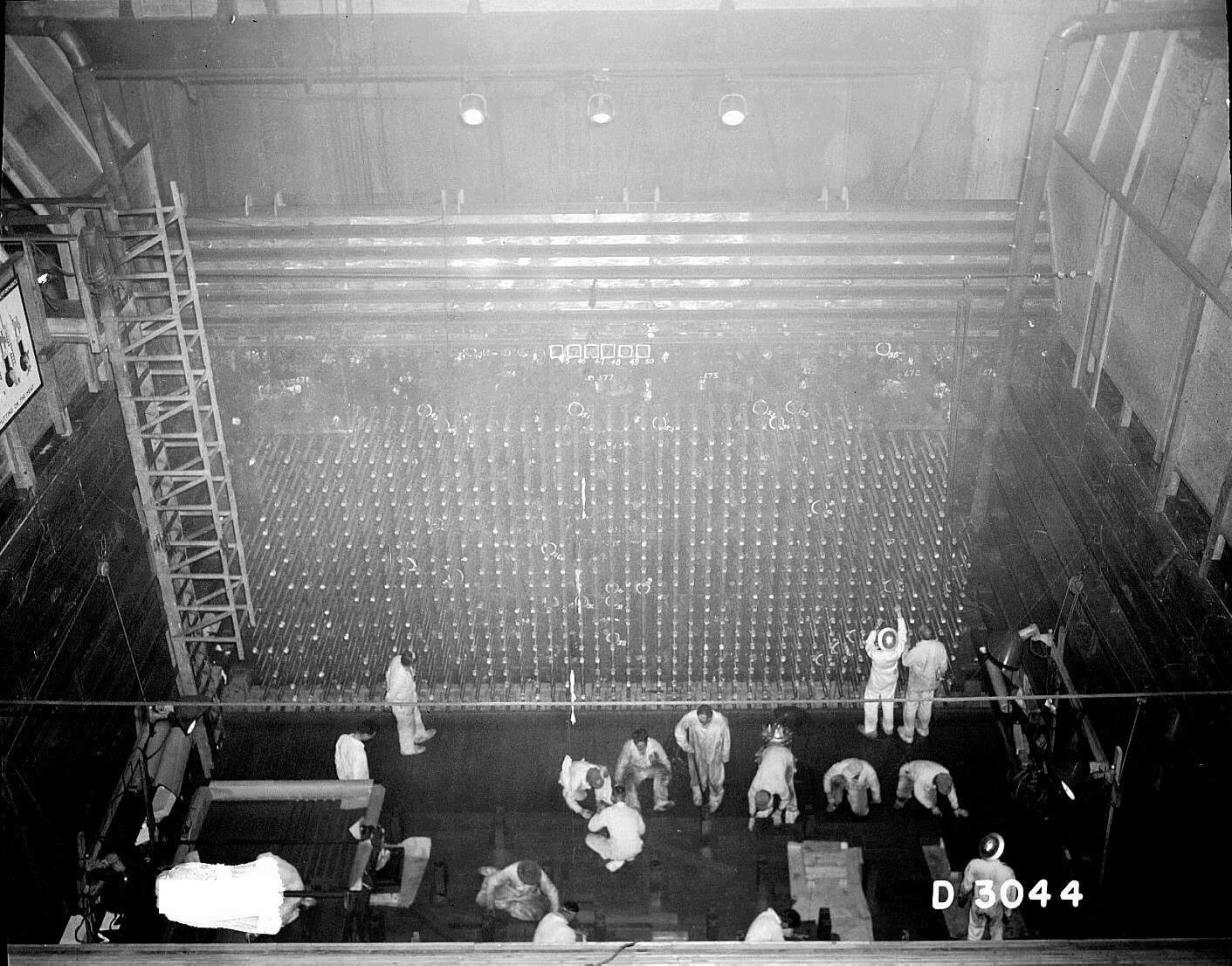 Front face of the B reactor at the Hanford site. Image #N1D0029049 at